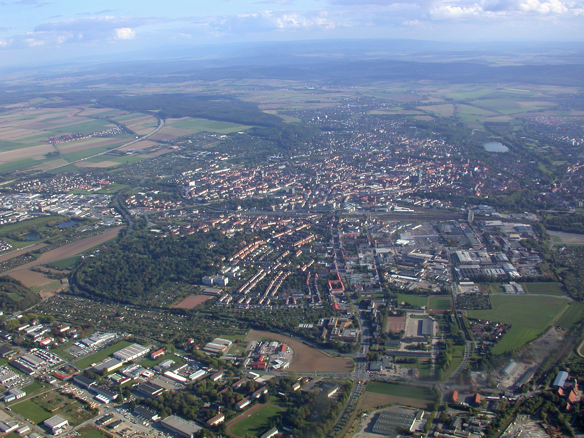 Aerial view of Hildesheim